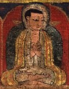 Mal Lotsawa, 11th century Tibetan translator